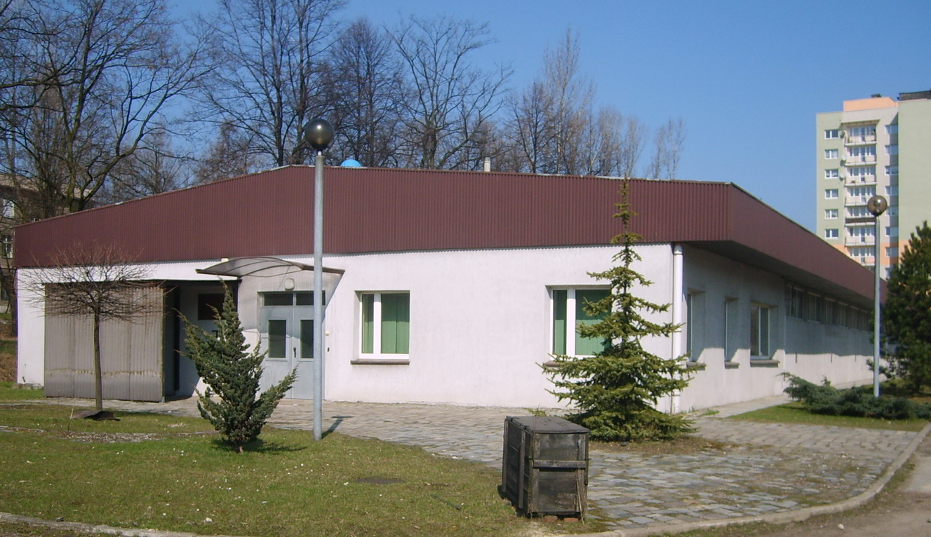 The State Archives in Katowice. Building no. 8. The branch of maintenance and "reprography".